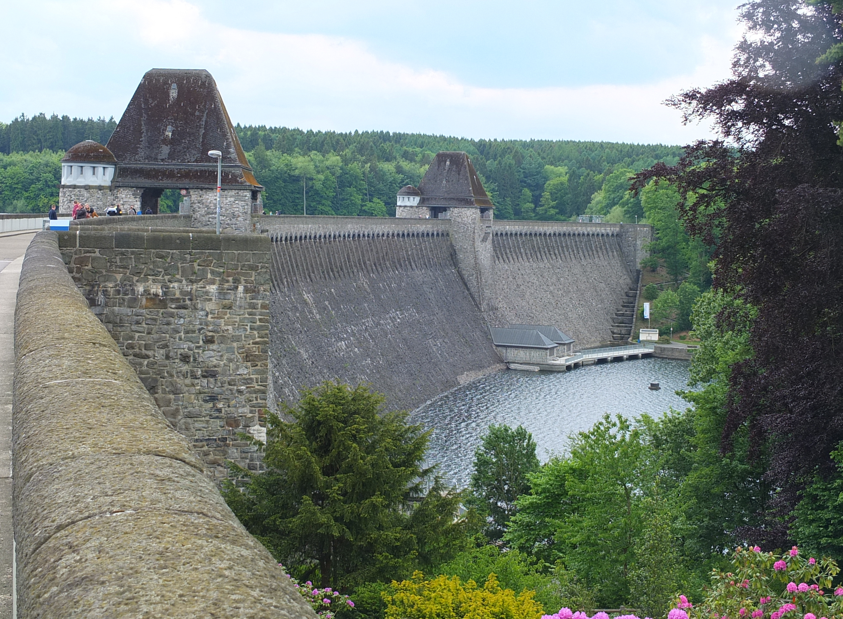 The Möhne dam was built between 1908 and 1913 to help control floods, regulate water levels on the Ruhr river downstream, and generate hydropower. Today, the lake is also a tourist attraction.